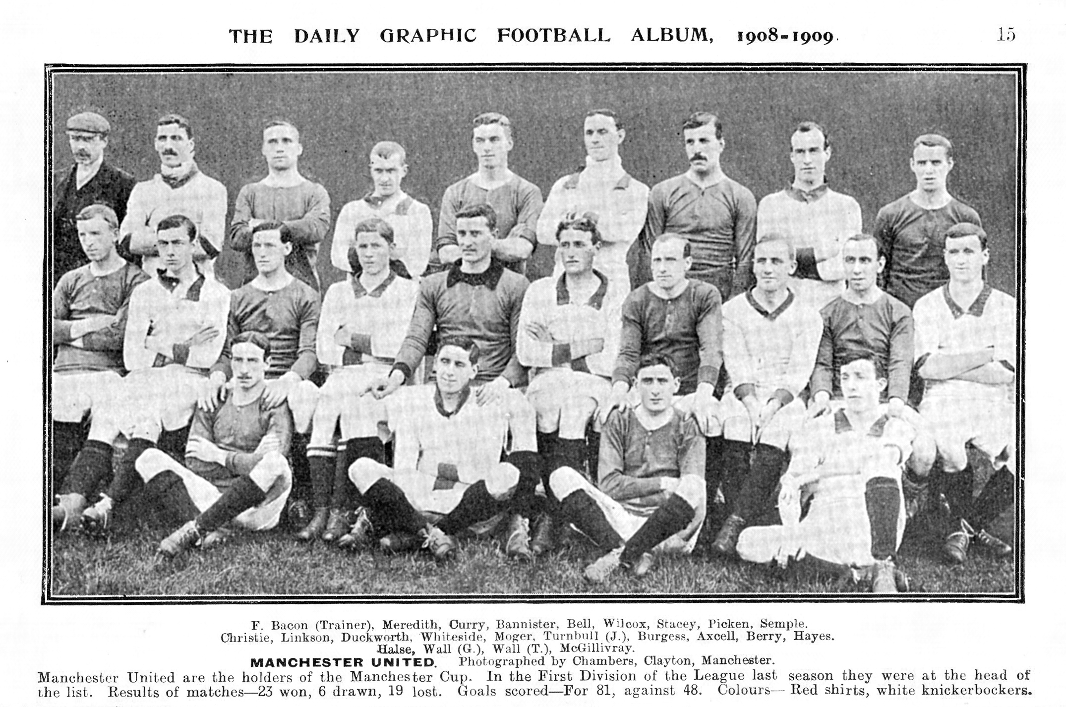 A Manchester United F.C. squad at the start of the 1908-09 season in which they won the very first Charity Shield.